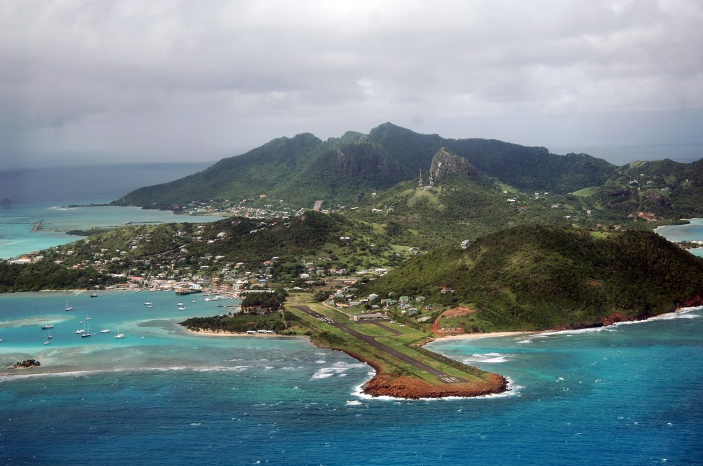 Union Island, Grenadines, selfmade photograph on Nov 10 2005